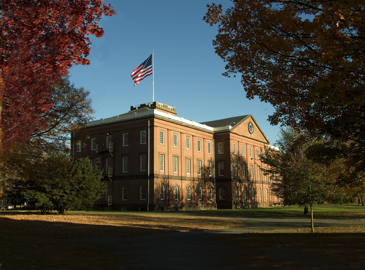 Springfield Armory National Historic Site